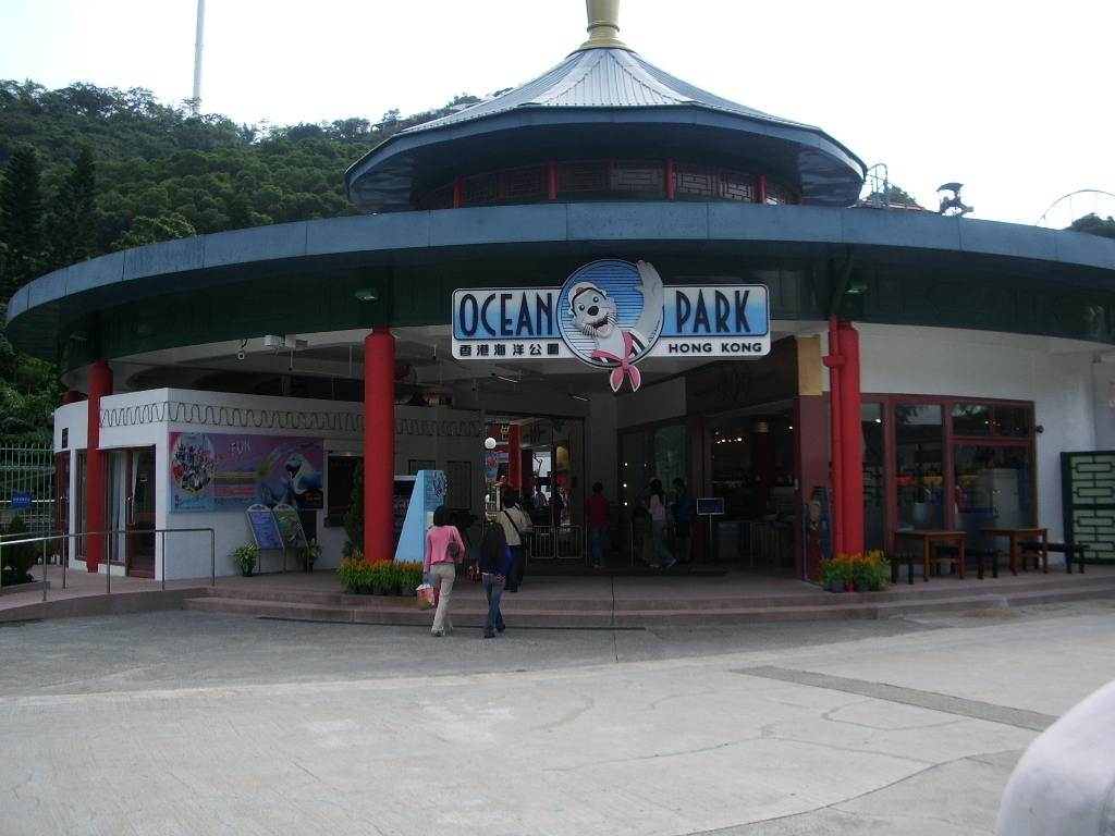 Photo taken by myself. Nov/16/2005